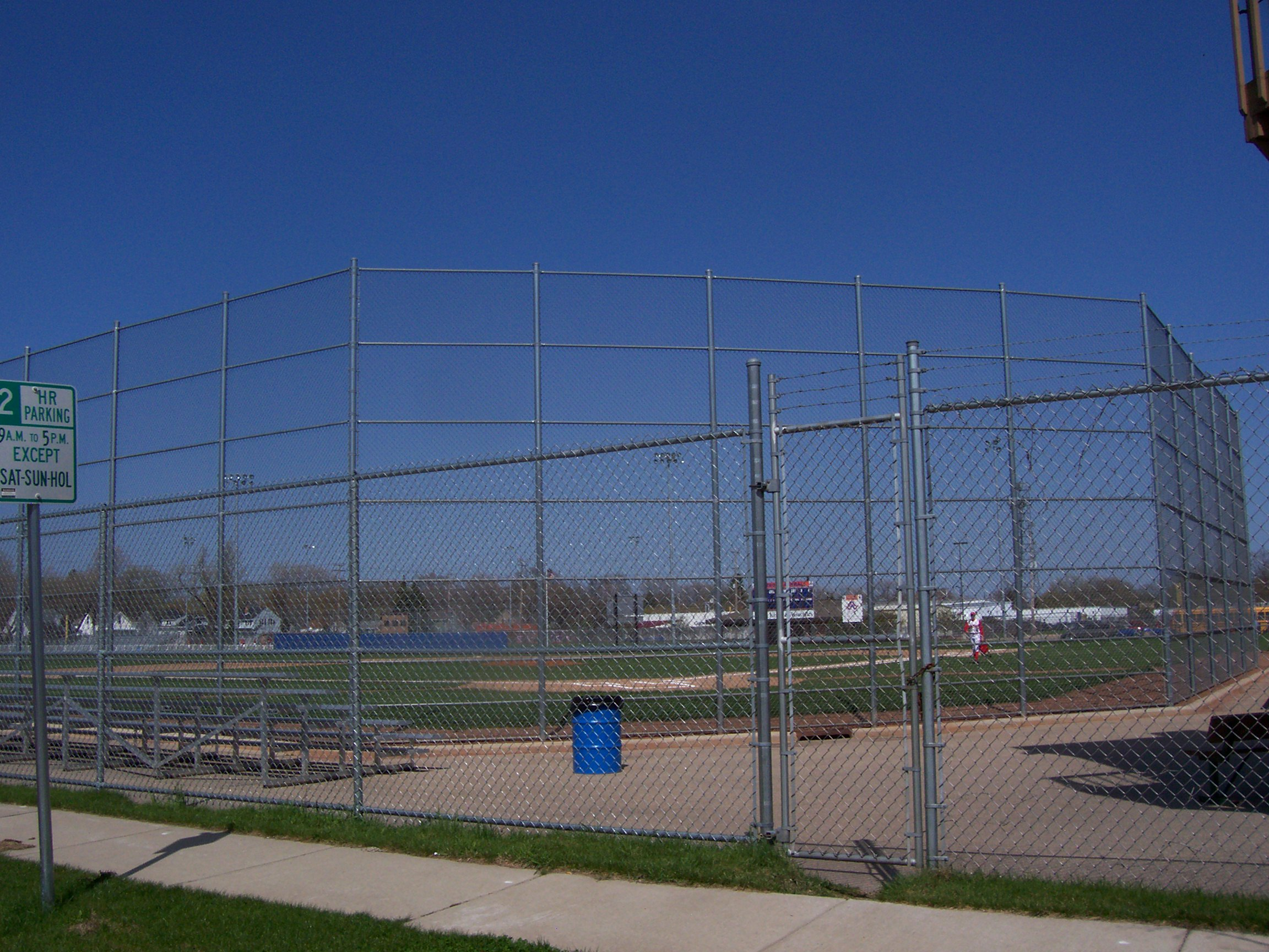 The Appleton School District baseball field at the location of the defunct Goodland Field in Appleton, Wisconsin, USA.